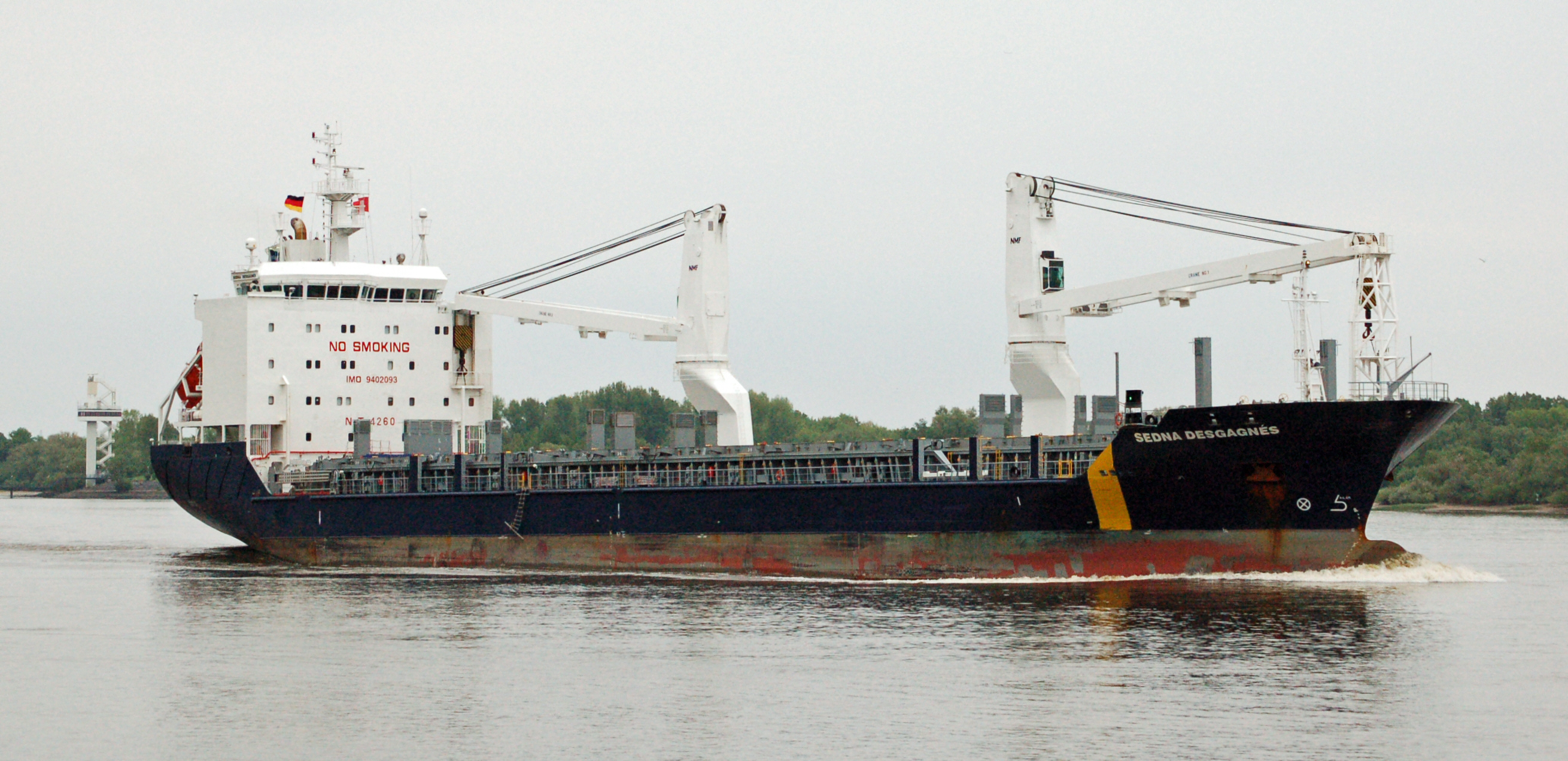 The Sedna Desgagnes is a bulk carrier. The first episode of the CBC News series High Arctic Haulers followed the Sedna as it made the annual supply trips to various sites in Canada's Arctic Archipelago.